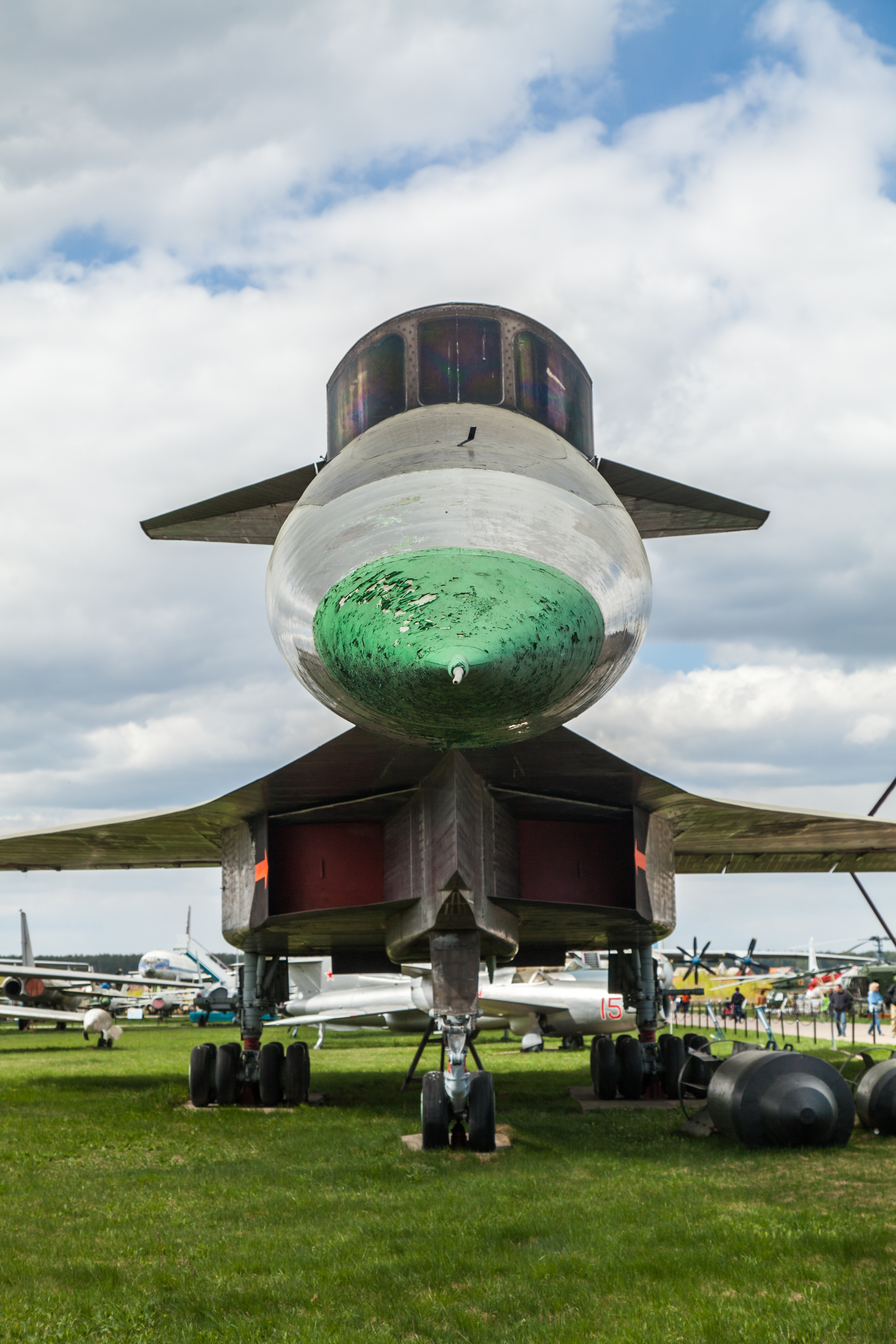 Sukhoi T-4 (101) at Central Air Force Museum